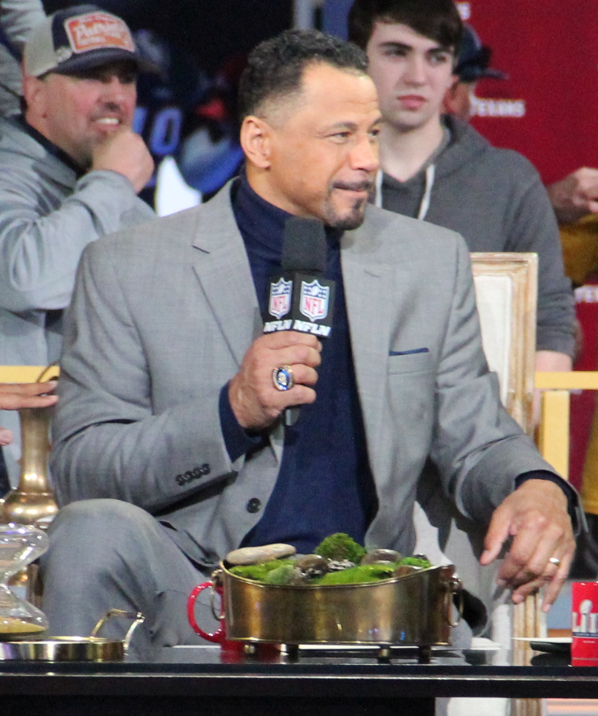 Rod Woodson at the Super Bowl Experience at Super Bowl LIII